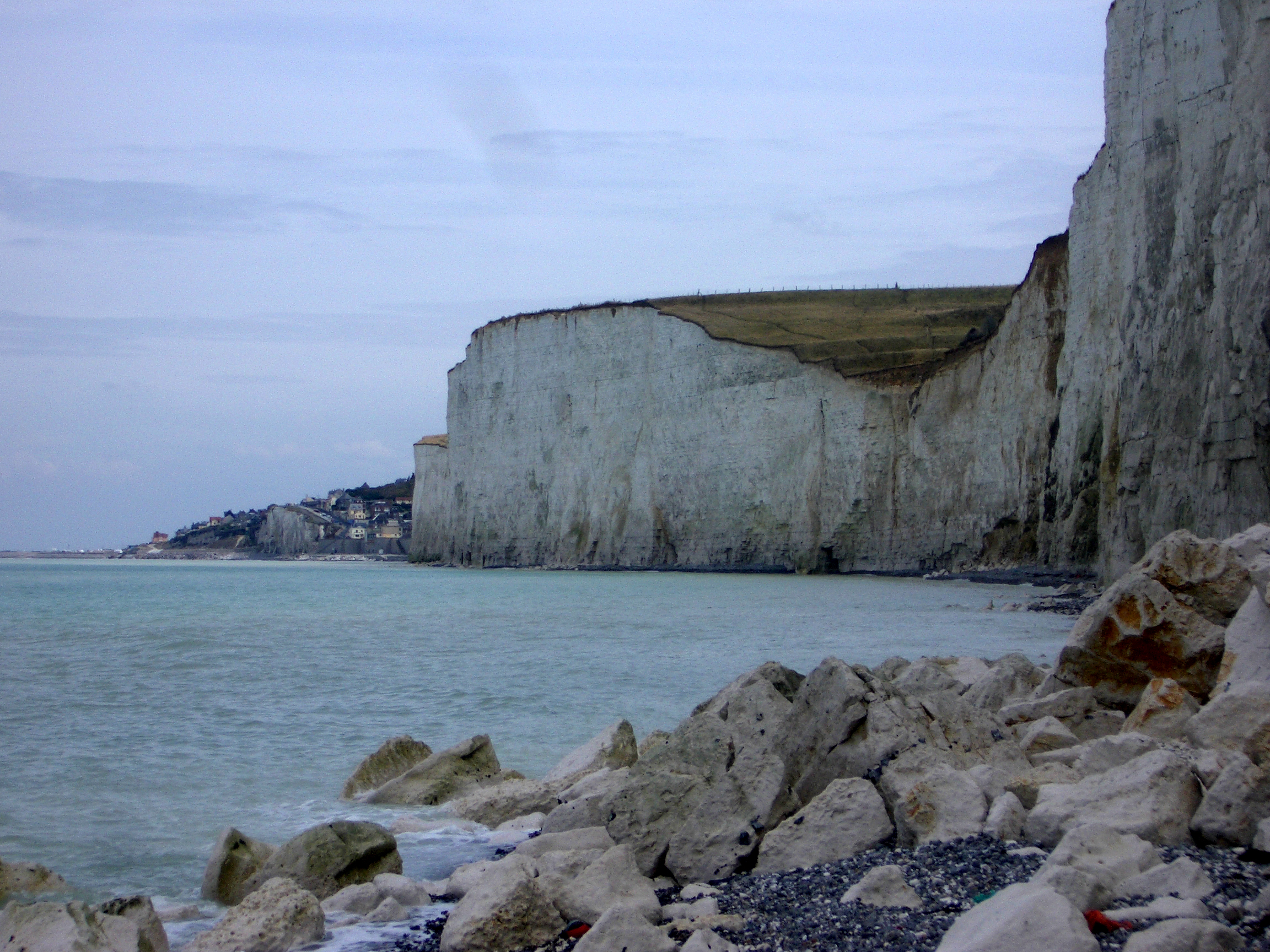 Ault (Somme, France)The view to Ault.